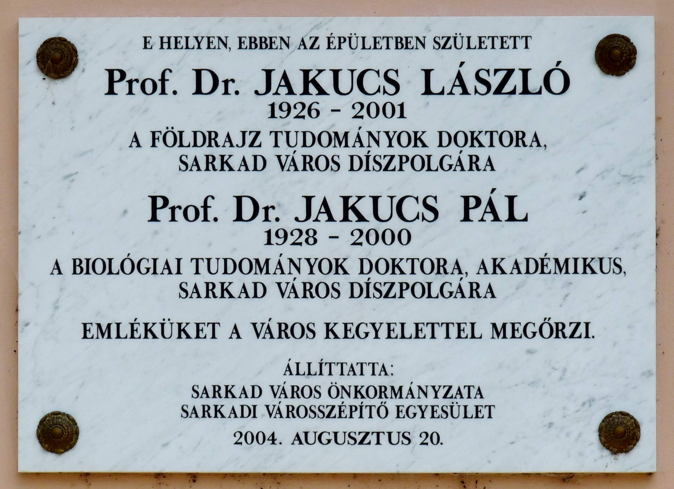 Commemorative plaque to Prof. Dr. László Jakucs (1926-2001) Hungarian geologist and university professor as well as his brother Prof. Dr. Pál Jakucs (1928-2000) ecologist, botanist and university professor. It was affixed to the wall of the house where they are born. (Sarkad, Veress Sándor Street Nr 17)